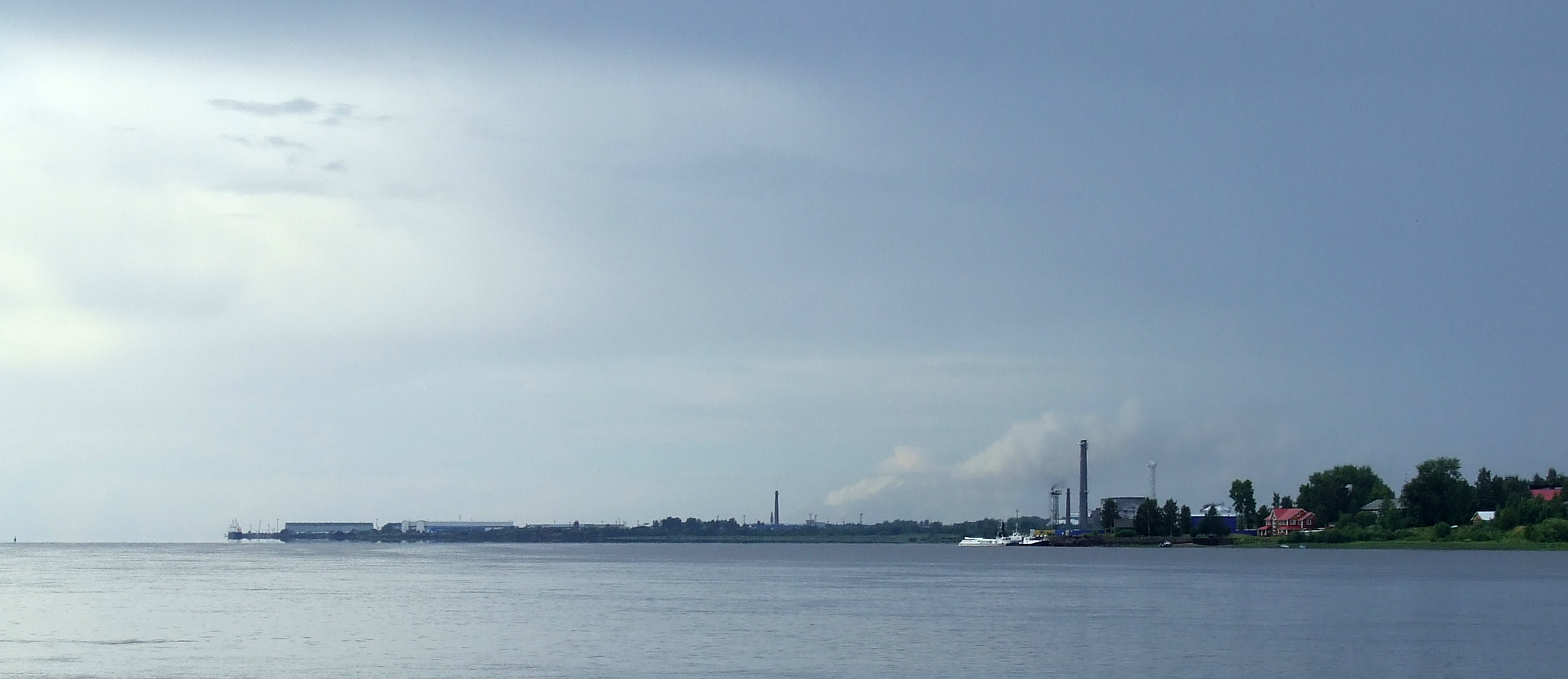 Onega, view of the port and the North-West part of the town. Estuary of the Onega River.